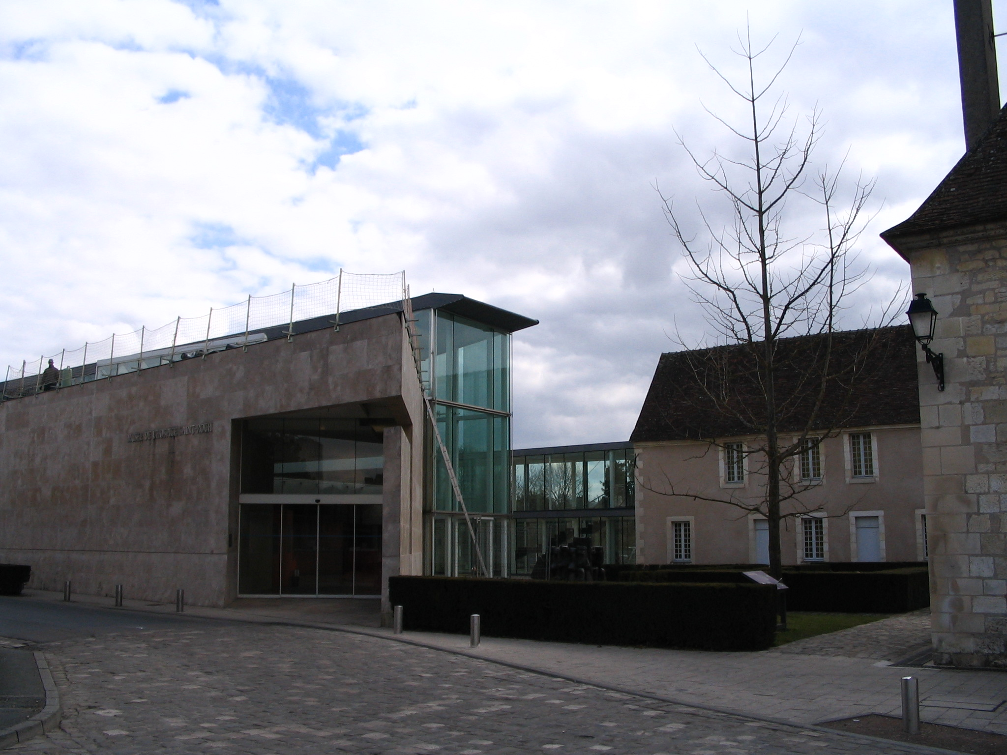 A museum in Issoudun, Indre, France.